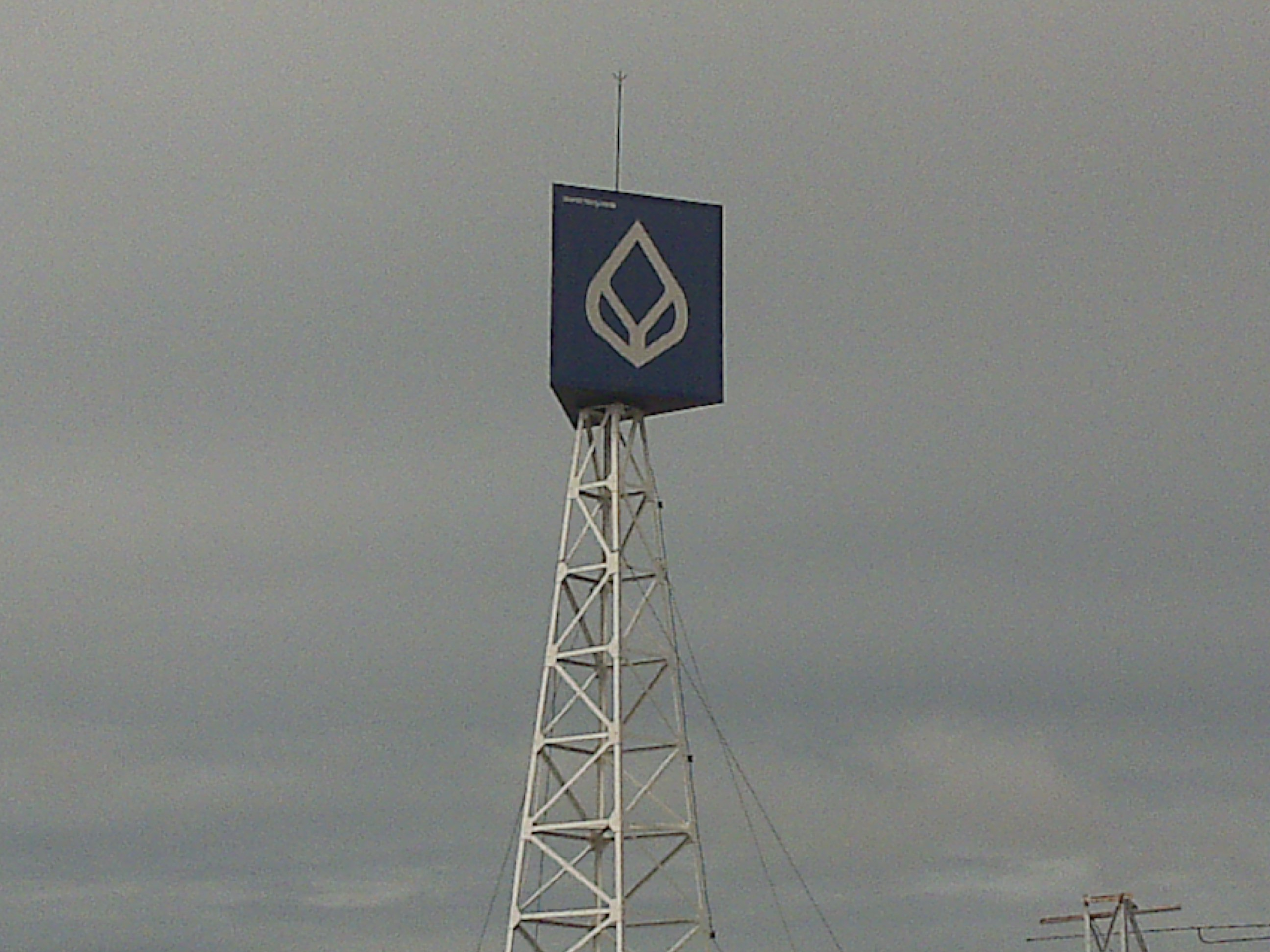 Bangkok Bank Tower Buriram, Thailand